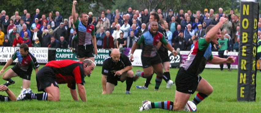 The Winning Try